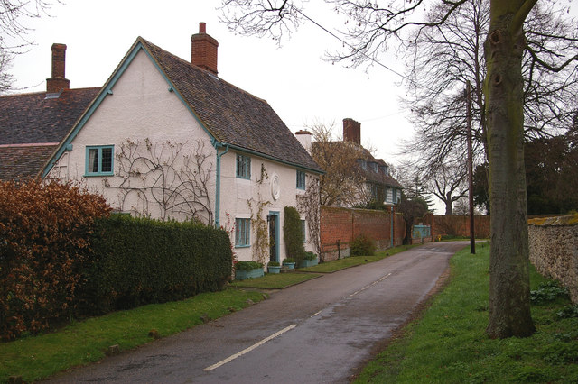 Church Lane, Cardington The near cottage has a plaque on the front dating it as 1762, restored in 1928. The house in the background is Howards House, with a date plaque of 1642. It was the home of John Howard, the prison reformer, from 1760 to 1790.